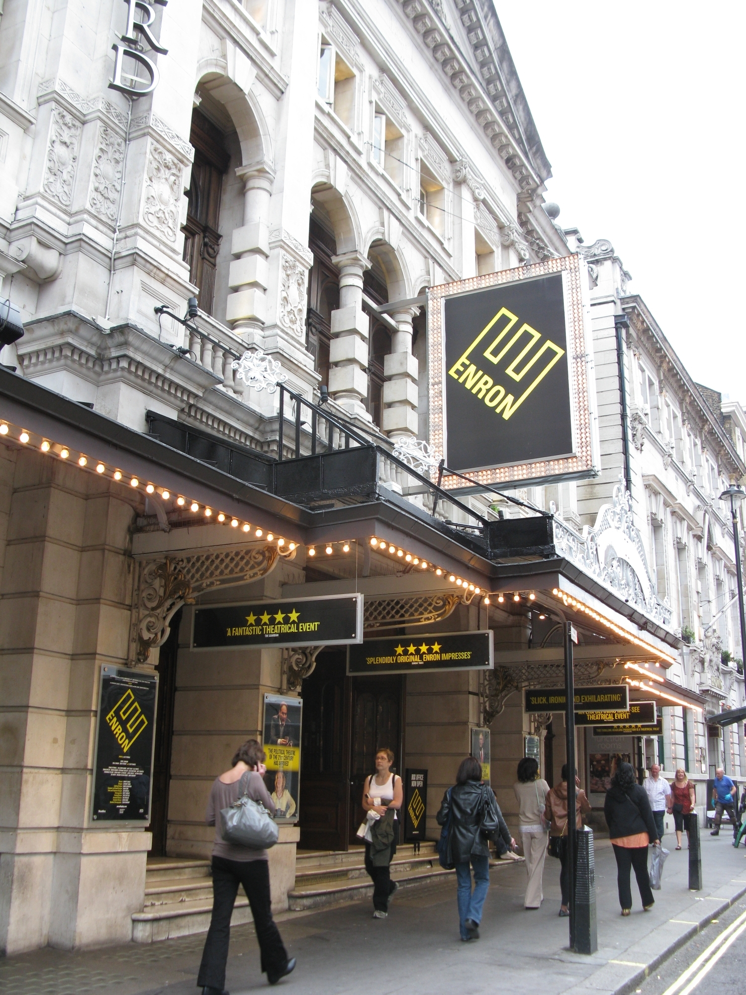 A picture of the Noel Coward Theatre displaying signs for its production, Enron